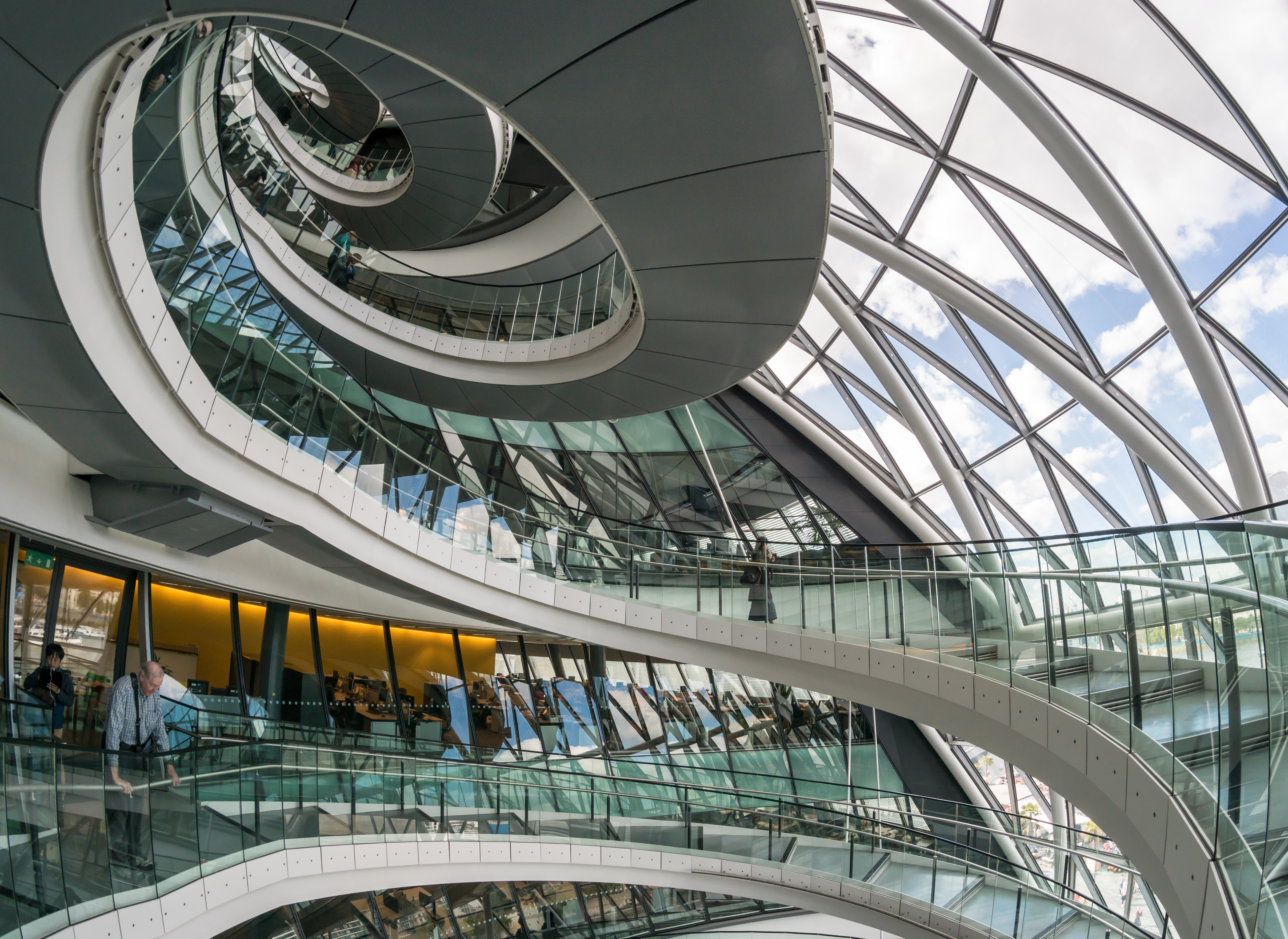 The spiral staircase in City Hall, London.